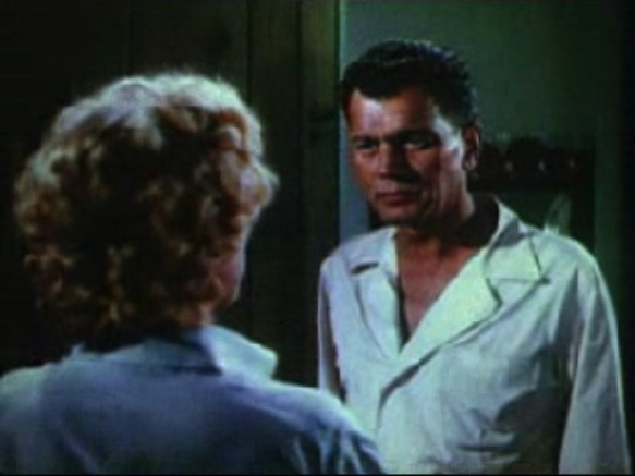 Joseph Cotten confronts Marilyn Monroe in the theatrical trailer of the 1953 film Niagara directed by Henry Hathaway.